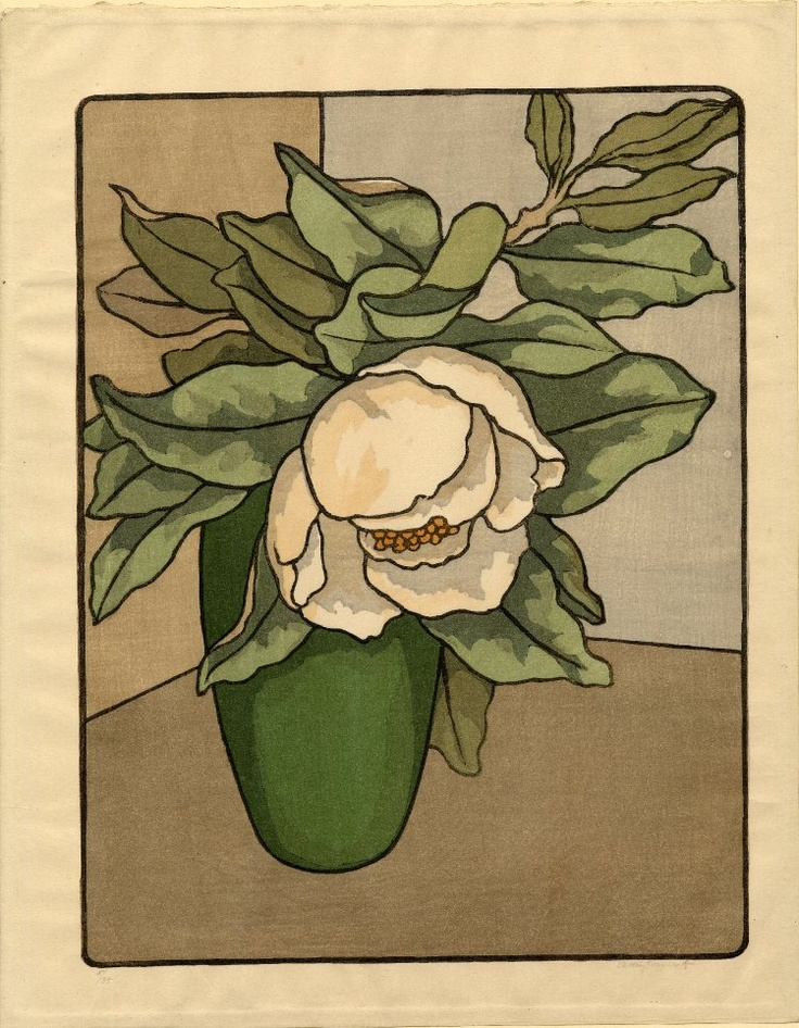 Vase with white flower and leaves, colored woodcut engraved by Andrew Kay Womrath.